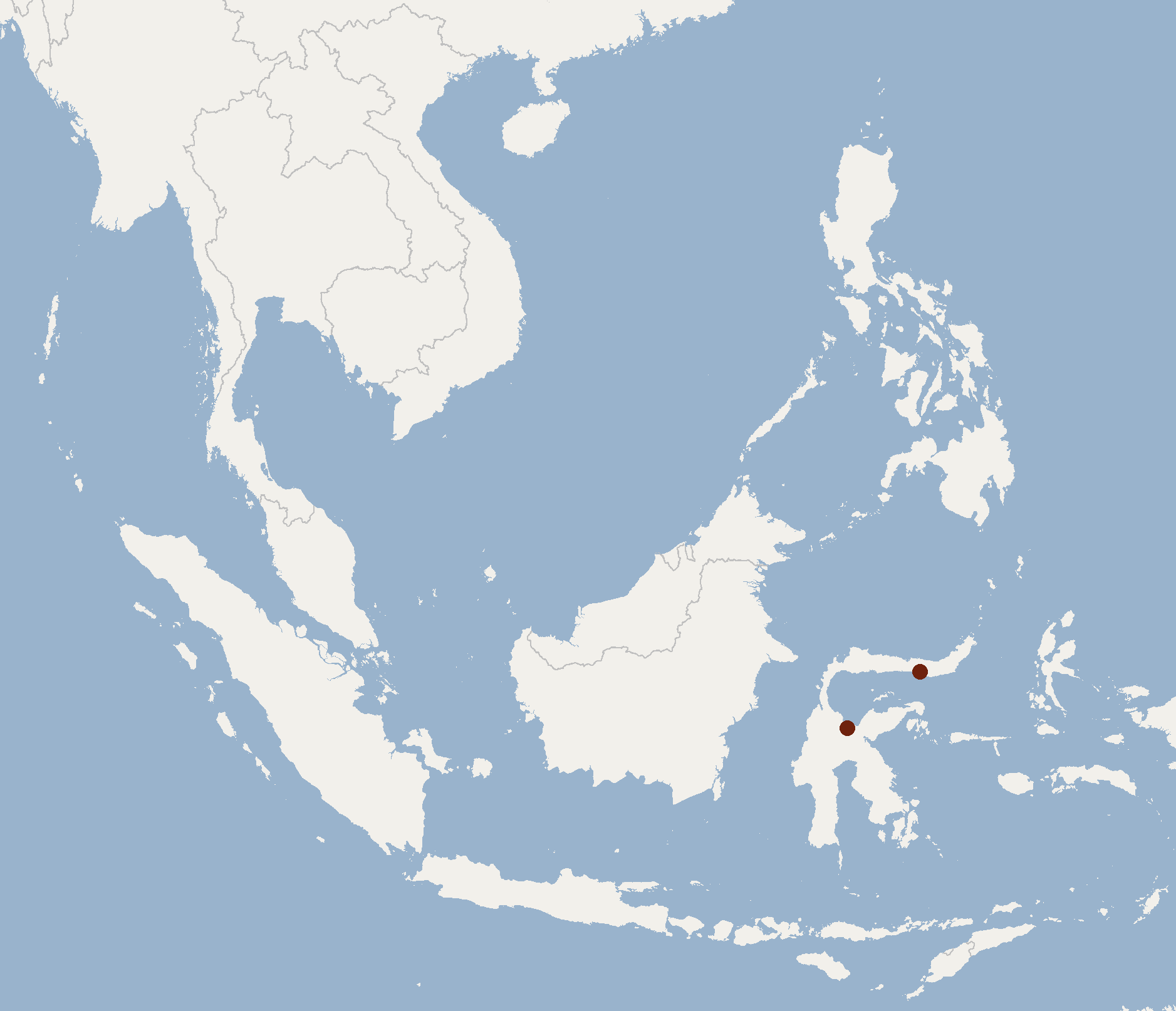 Geographical distribution of Hipposideros inexpectatus according to Museum specimens